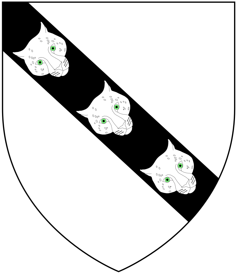 Arms of Cockeram of Hillersdon in the parish of Cullompton, Devon: Argent, on a bend sable three leopard's faces of the field (Vivian, Lt.Col. J.L., (Ed.) The Visitations of the County of Devon: Comprising the Heralds' Visitations of 1531, 1564 & 1620, Exeter, 1895, p.205, substituting "faces" for "heads" as given in Lysons, Magna Britannia, Vol.6, Devon & in Burke's General Armory, 1884, which last two however give the tincture of the faces as or) Leopard's heads would be in profile, unusual, either erased or couped, not specified, thus it seems faces were meant.